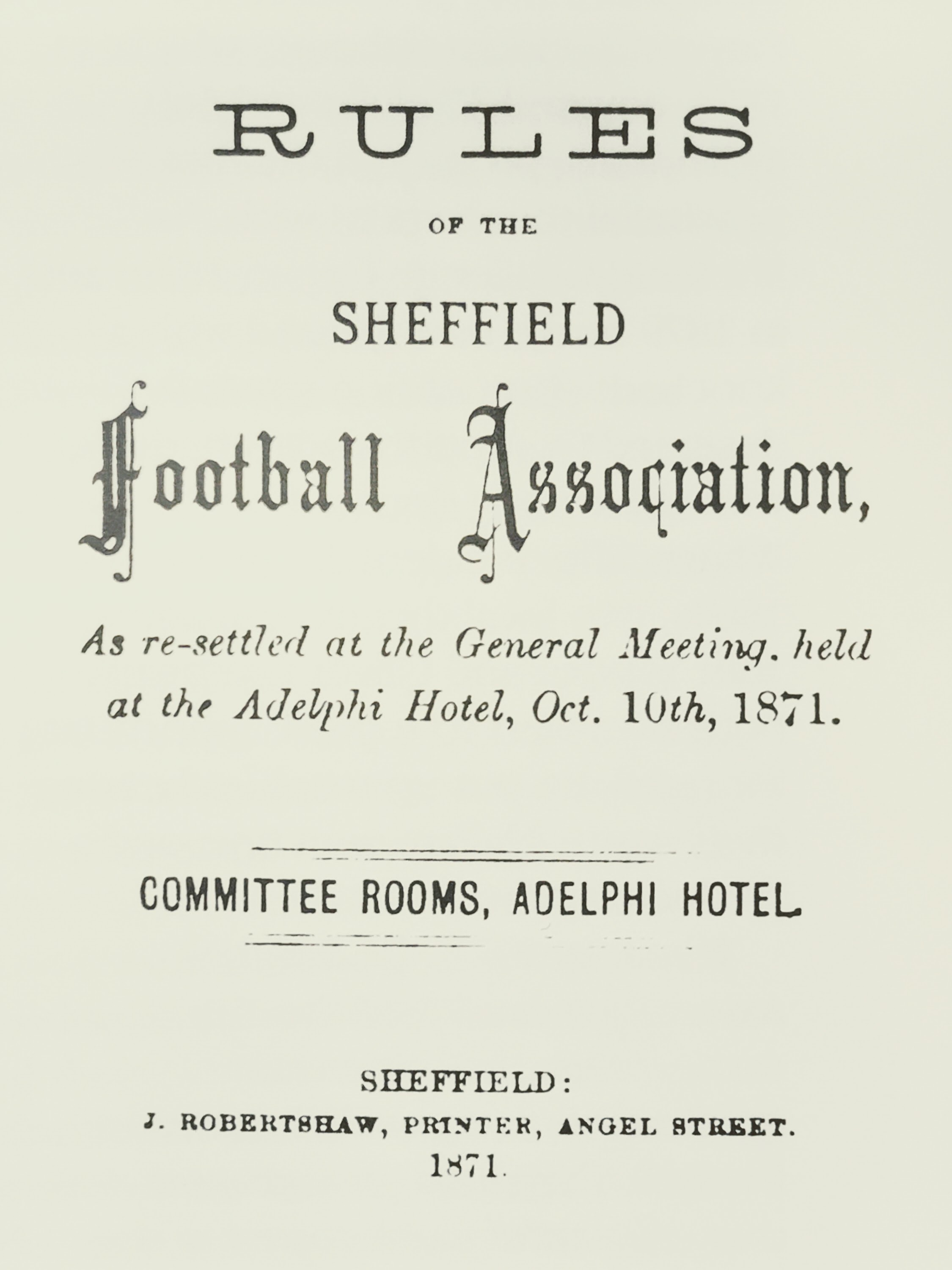 Title page of the published Rules of the Sheffield Football Association (1871)